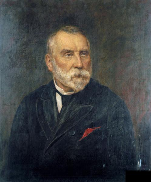 Portrait of Sir Edward W. Watkin, Chairman of the Manchester, Sheffield & Lincolnshire Railway. (A modern logo has been obscured, in the bottom-right corner.